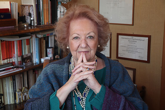 Argentieri Simona, psicoanalista